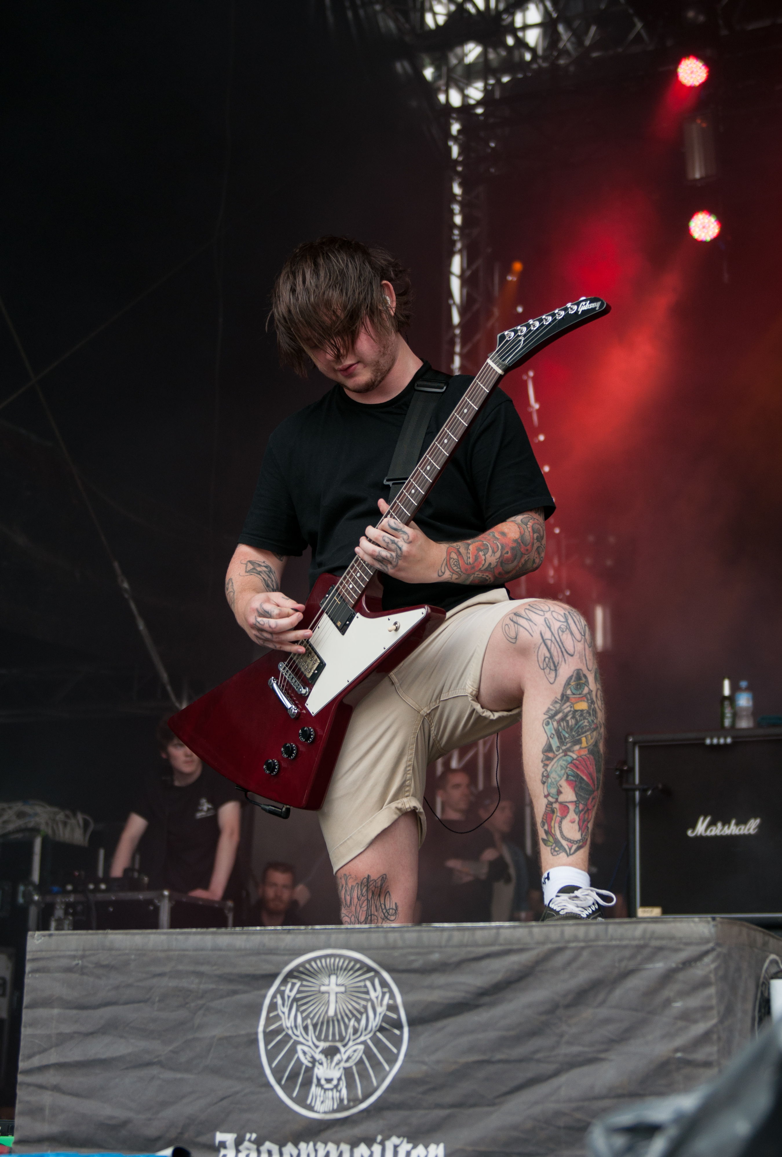 Bring Me the Horizon at Vainstream Rockfest 2014